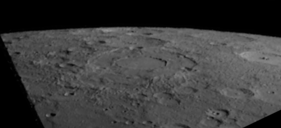 Oblique view with Bach crater at center.